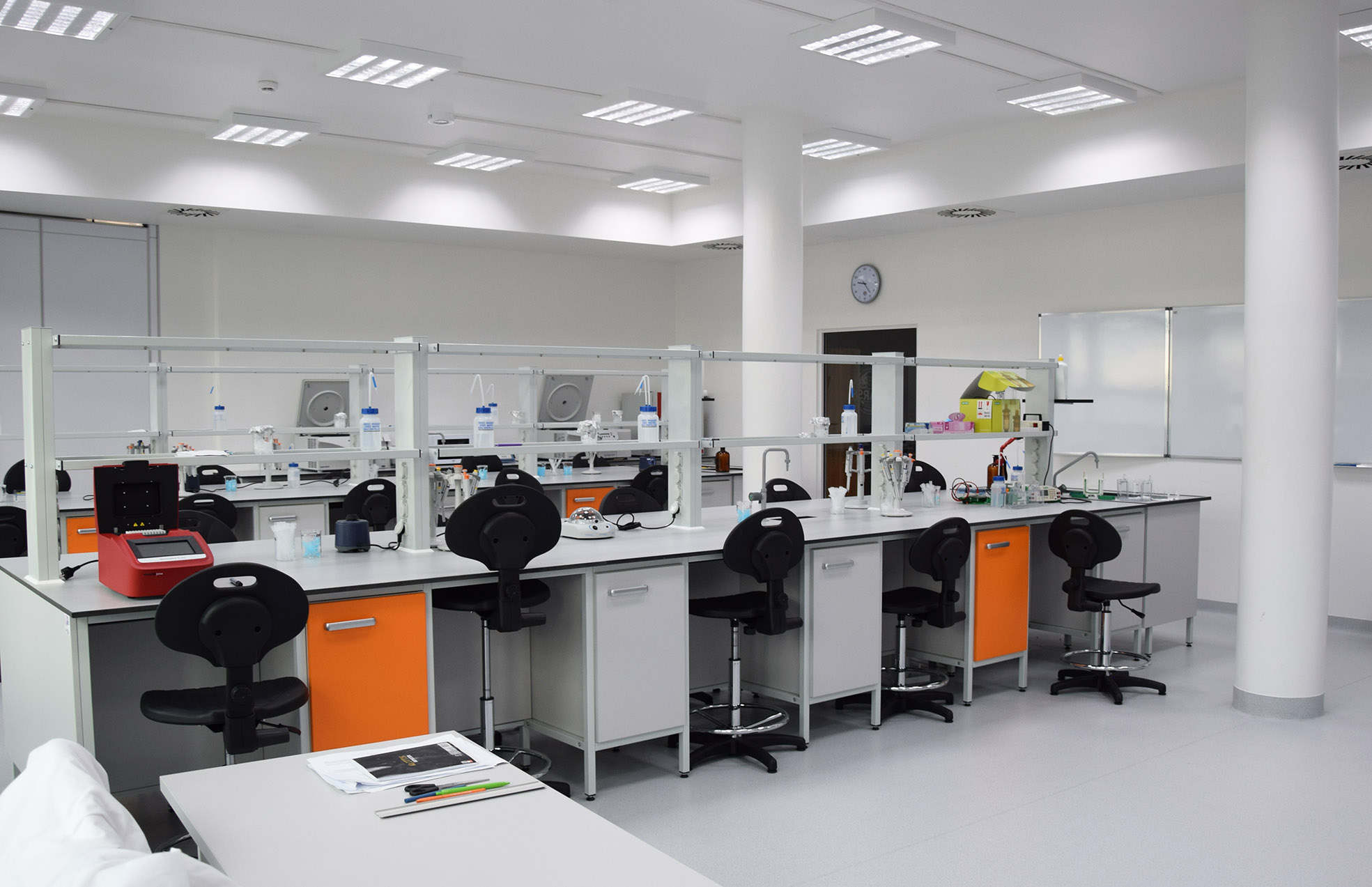 Laboratorium - Wydział Medyczny UŁa